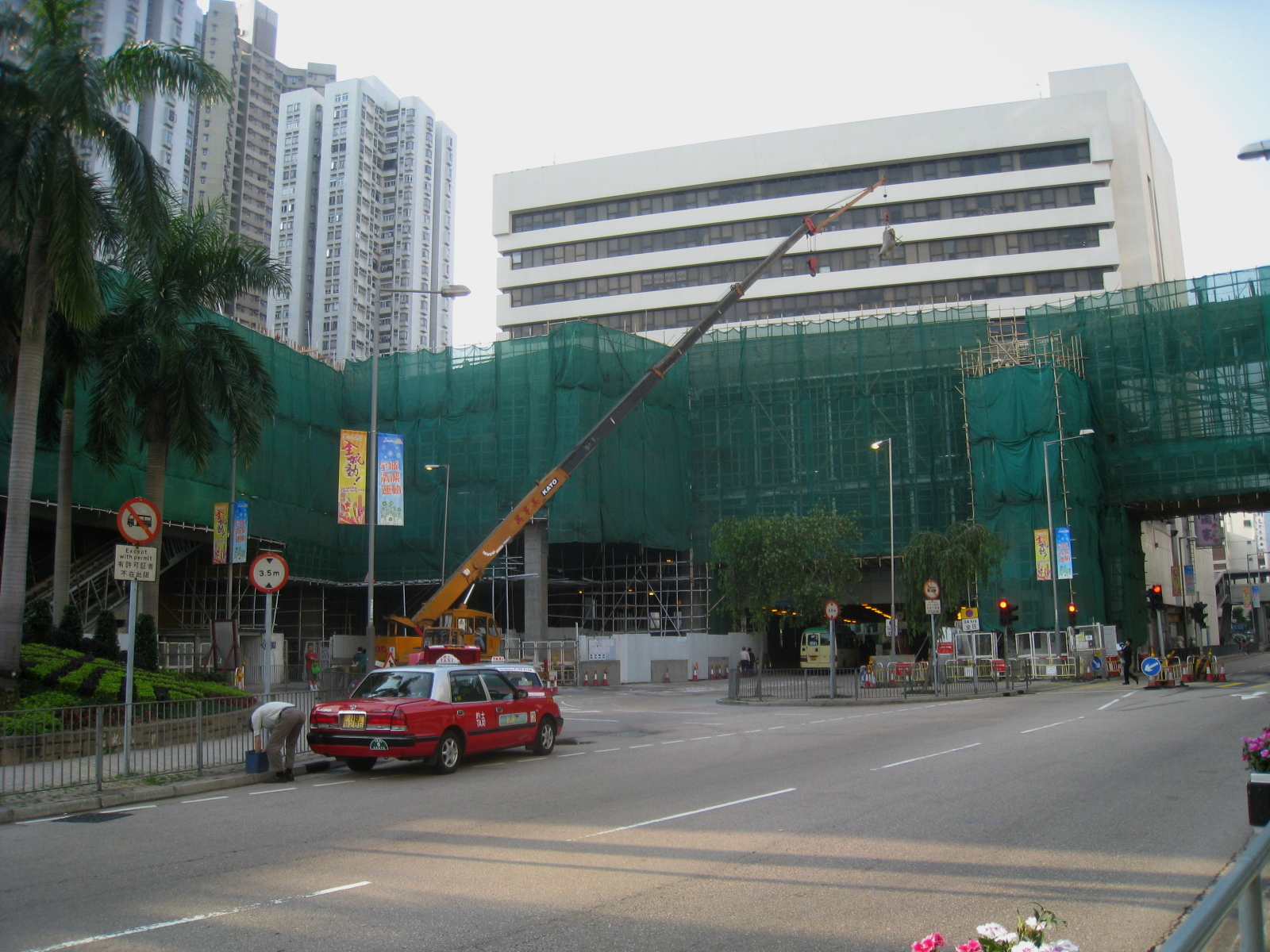 Kwai Hing Station New Bridge 葵興站新建的行人天橋